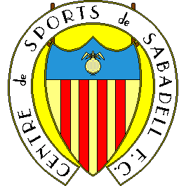 Historical badge of CE Sabadell FC. Digitally enhanced and with alpha channel.